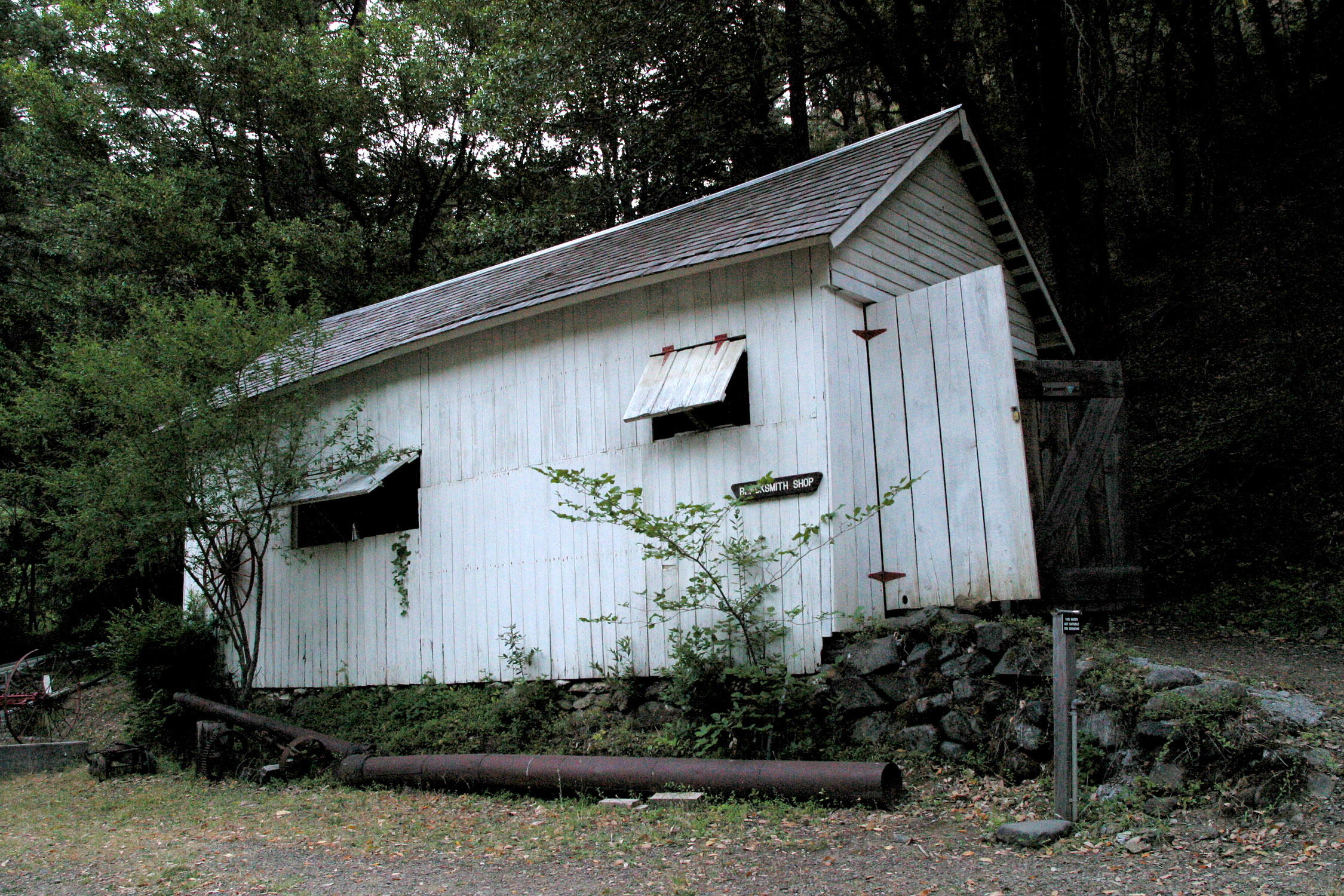 Rogue River Ranch blacksmith shop; the ranch is located on the north shore of the Rogue River at the mouth of Mule Creek in Curry County, Oregon